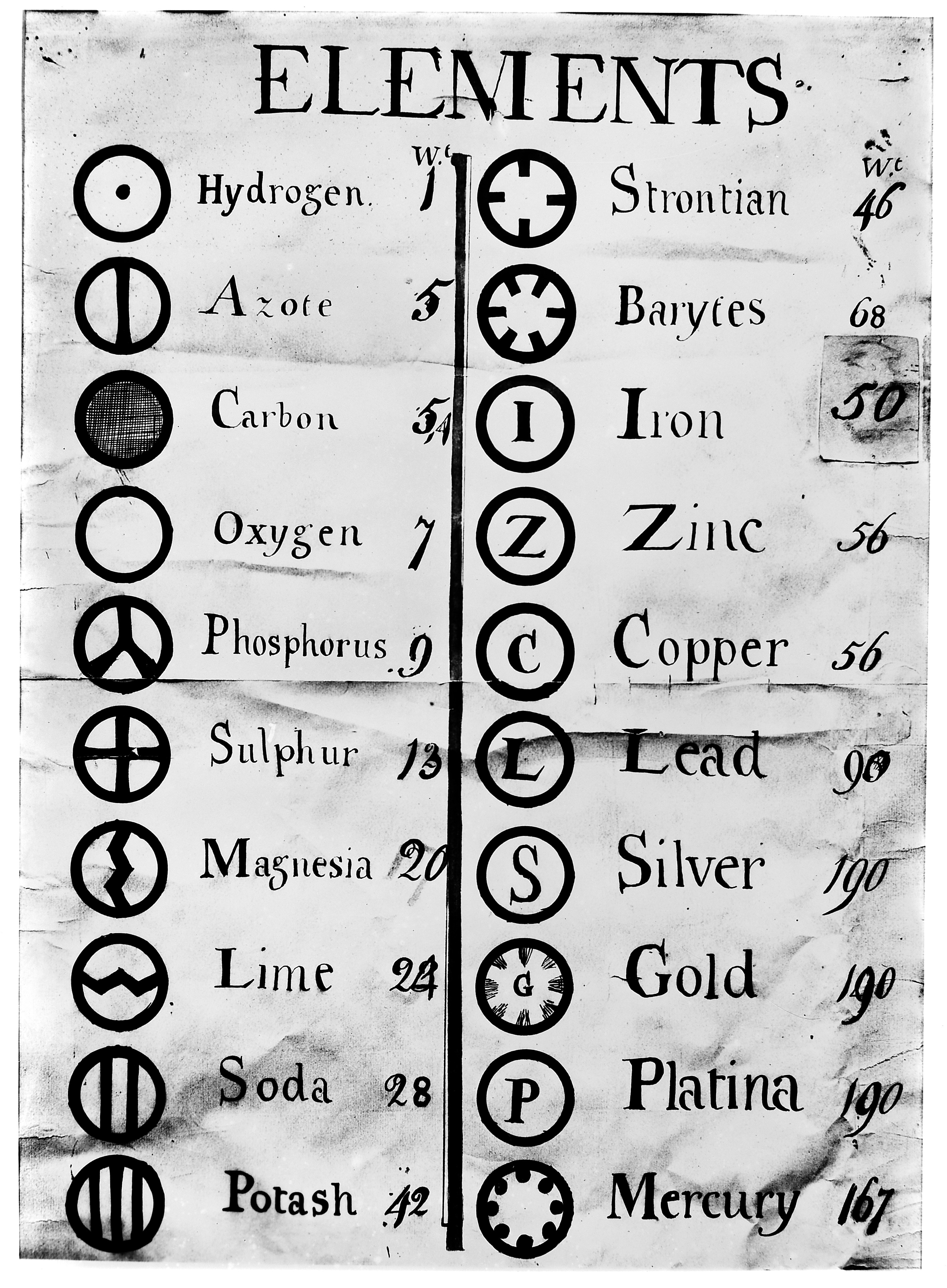 Dalton's symbols of the elements (1 of a series of 4 charts) Wellcome Images Keywords: John Dalton; chemistry, 19th century